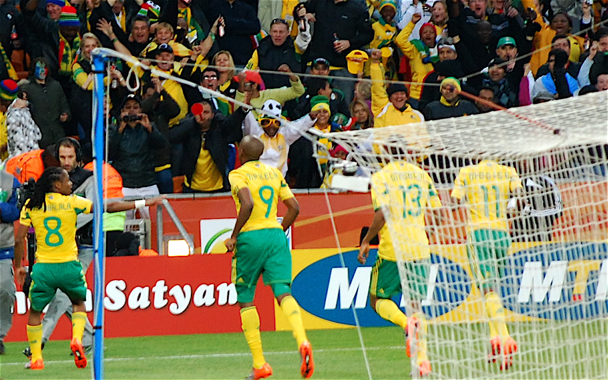 FIrst Match of the Fifa World Cup - Mexico VS South Africa - In Soccer City, Johannesburg